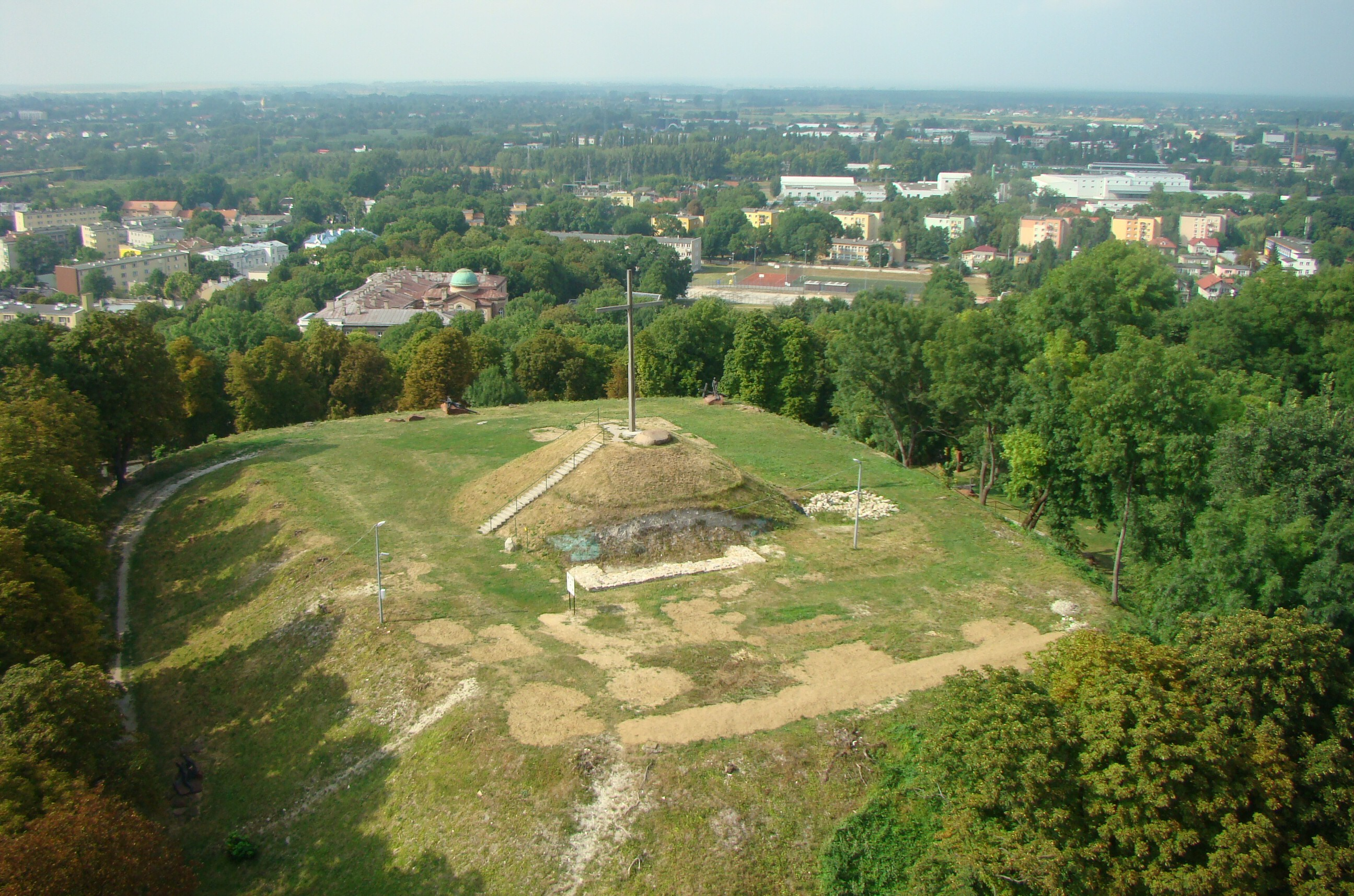 Wysoka Górka in Chełm, Poland.